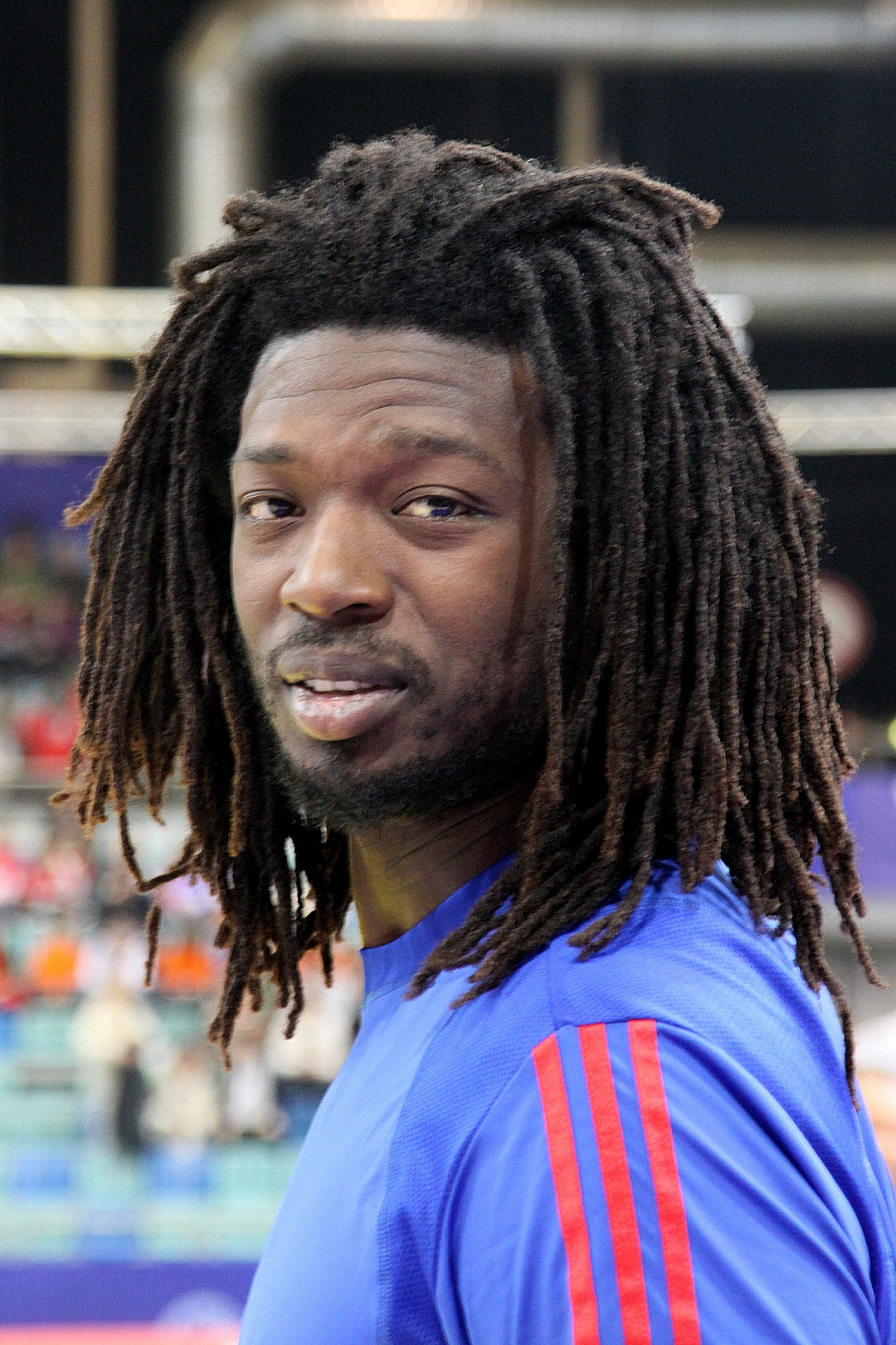 Daouda Karaboué (Montpellier HB), France national handball team